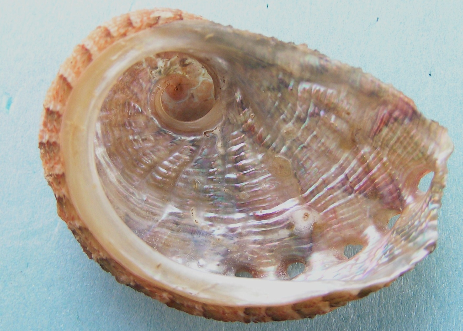 Haliotis queketti E. A. Smith, 1910; family Haliotidae; South Africa